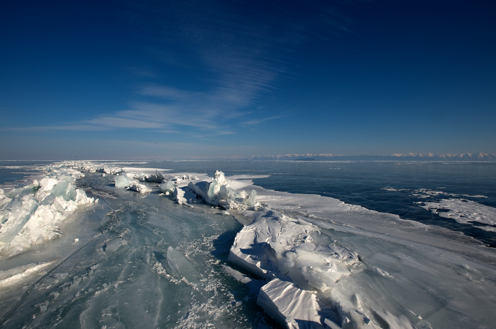 The Czech expedition Bergans Baikal 2010 with an aim to cross the lake Baikal lengthwise took place in February and March 2010. This picture depicts the surface of the frozen lake Baikal.